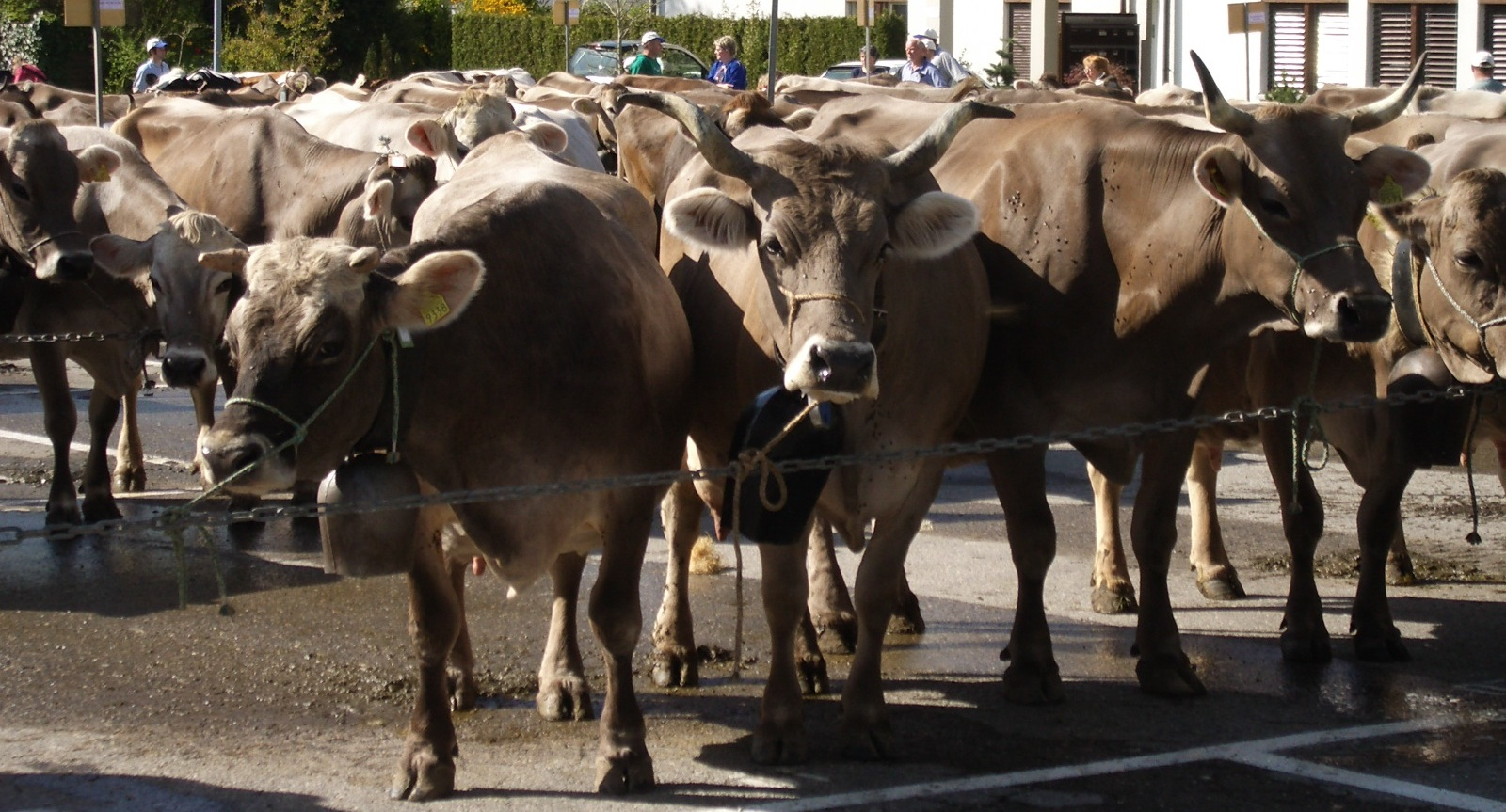 Cow Market, Bubikon / Switzerland self-made, April 2005